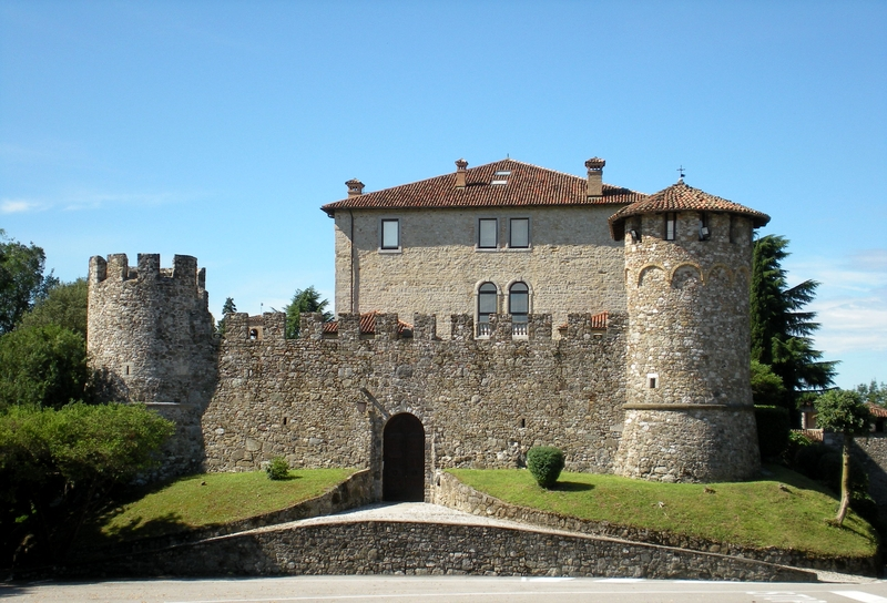 Castle of Tricesimo - Udine - Italy